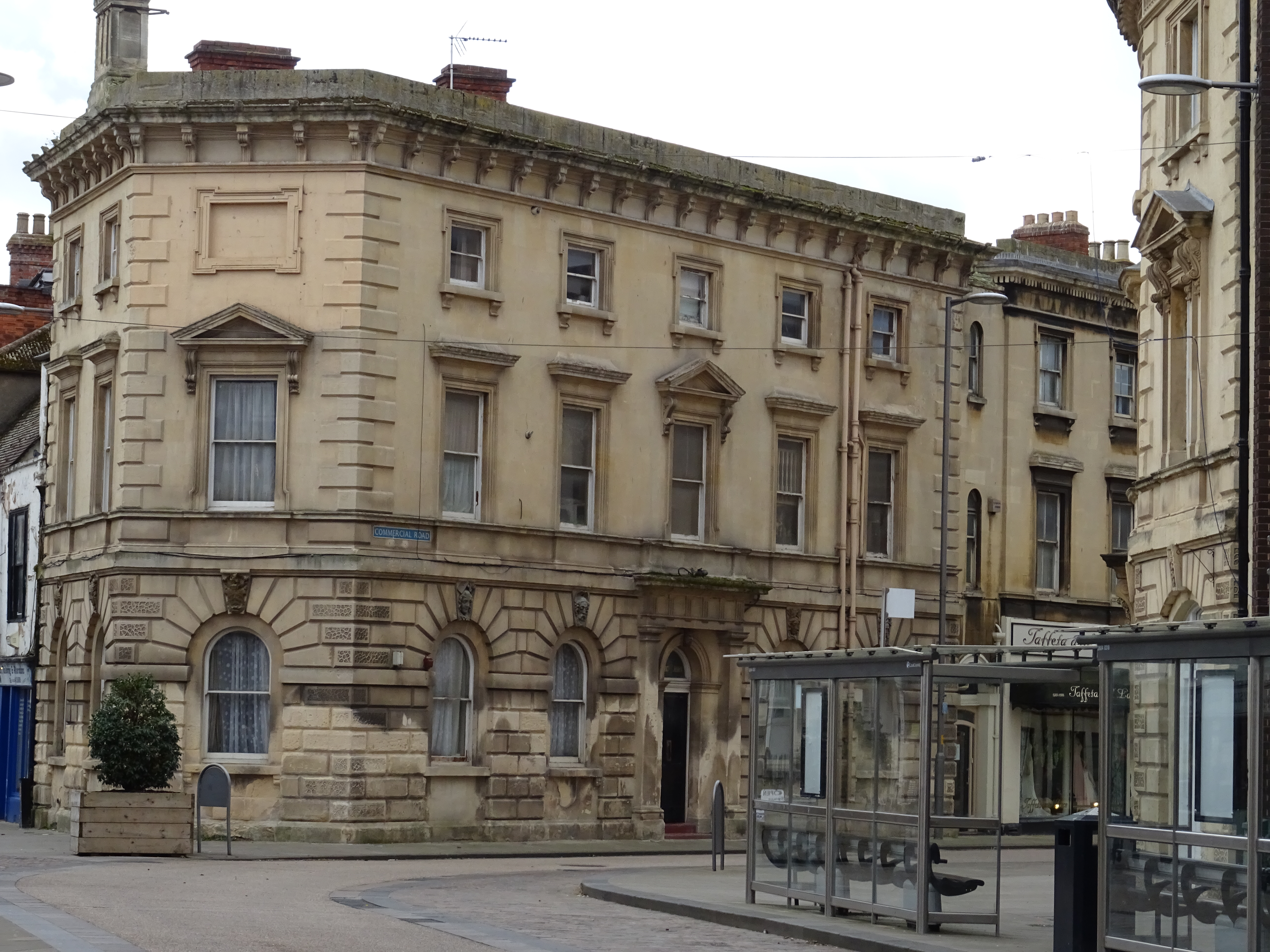 This is a photograph of 1 Commercial Road, Gloucester